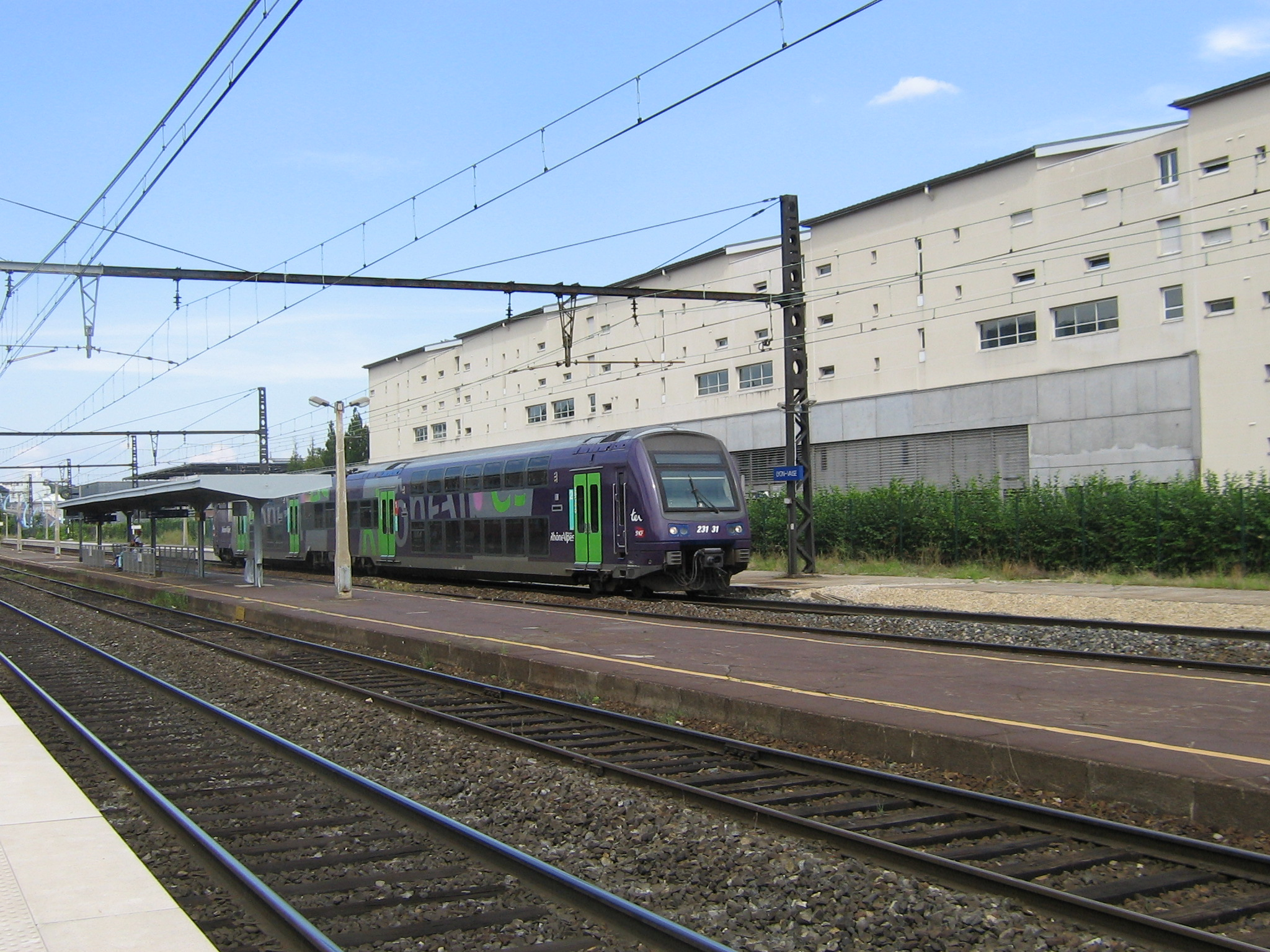 A Rhone-Alpes Department Z 23500 EMU at Lyon Vaise Station